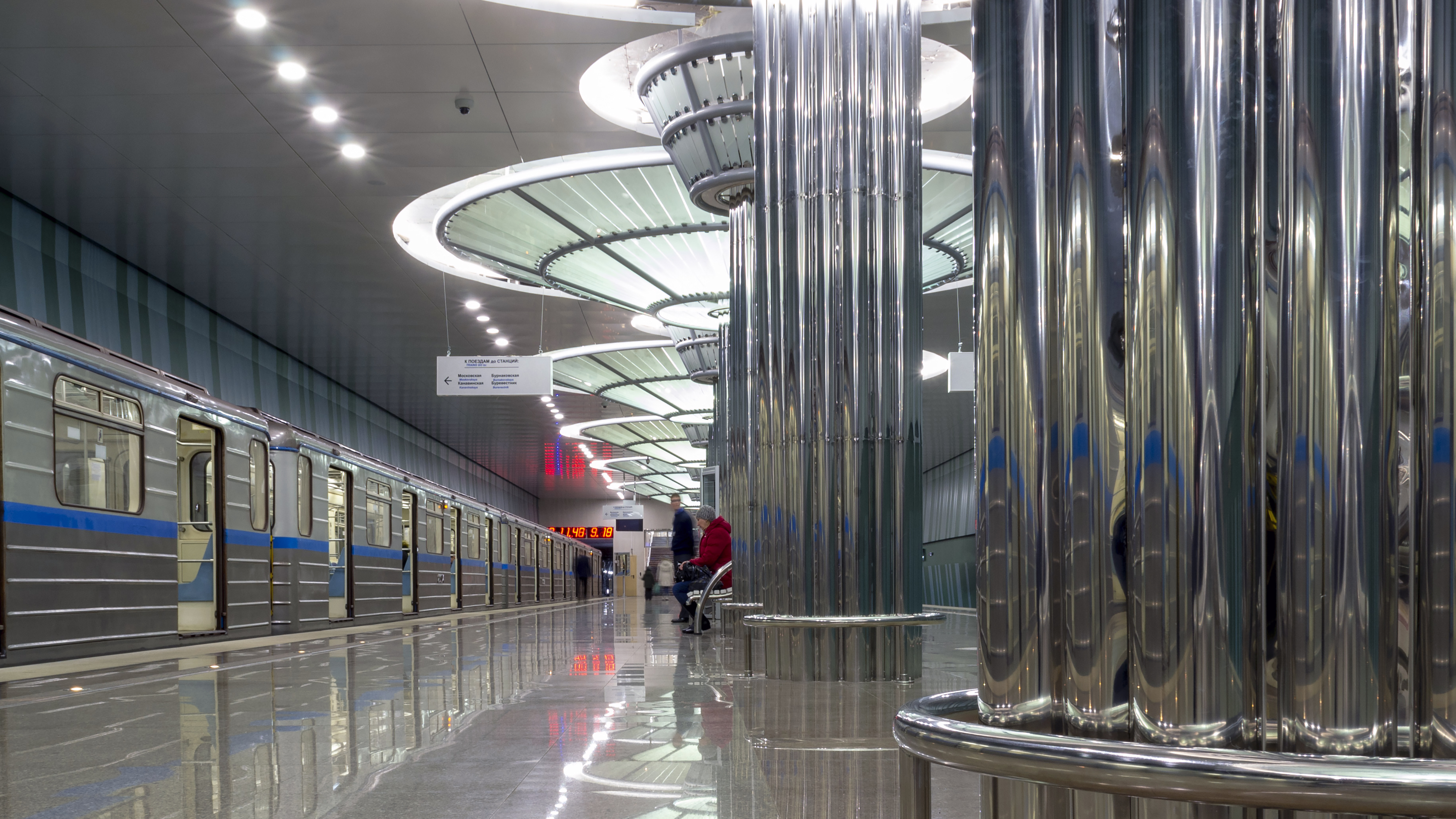 Strelka metro station in Nizhny Novgorod, Russia.